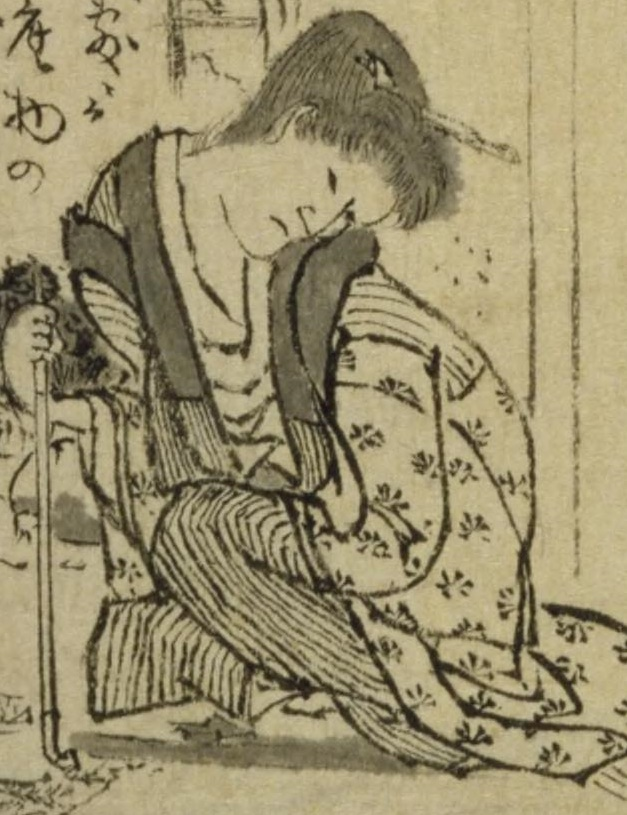 Katsushika Ōi in the middle of the 1840s.